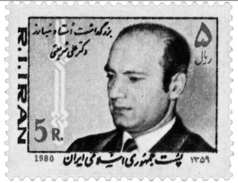 Ali Shariati Stamp